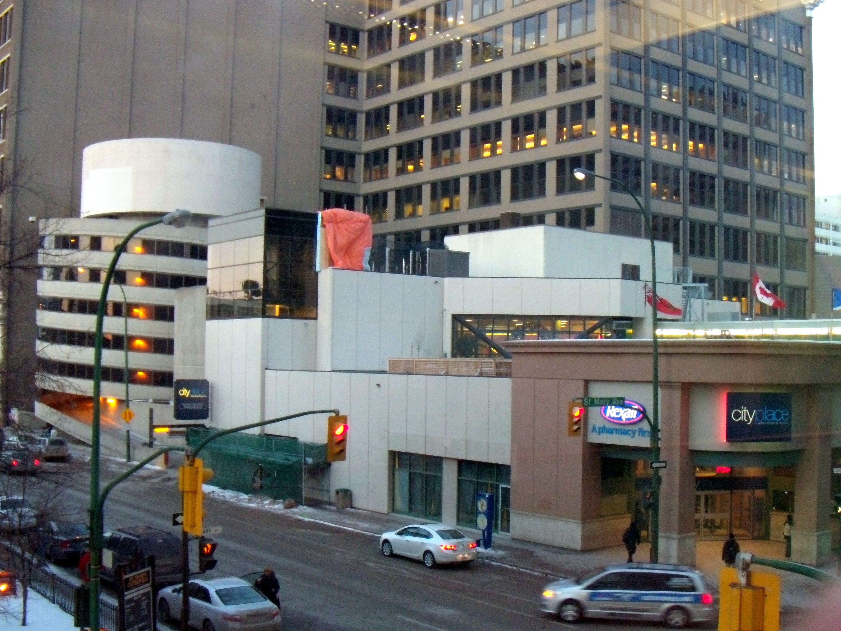 cityplace shopping mall in Winnipeg, Manitoba